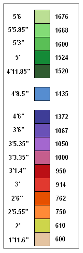 key for Image:Rail gauge world.png